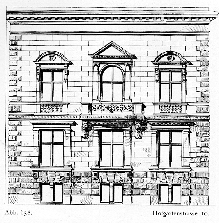 Hofgartenstraße 10 in Düsseldorf, Ansicht.jpg